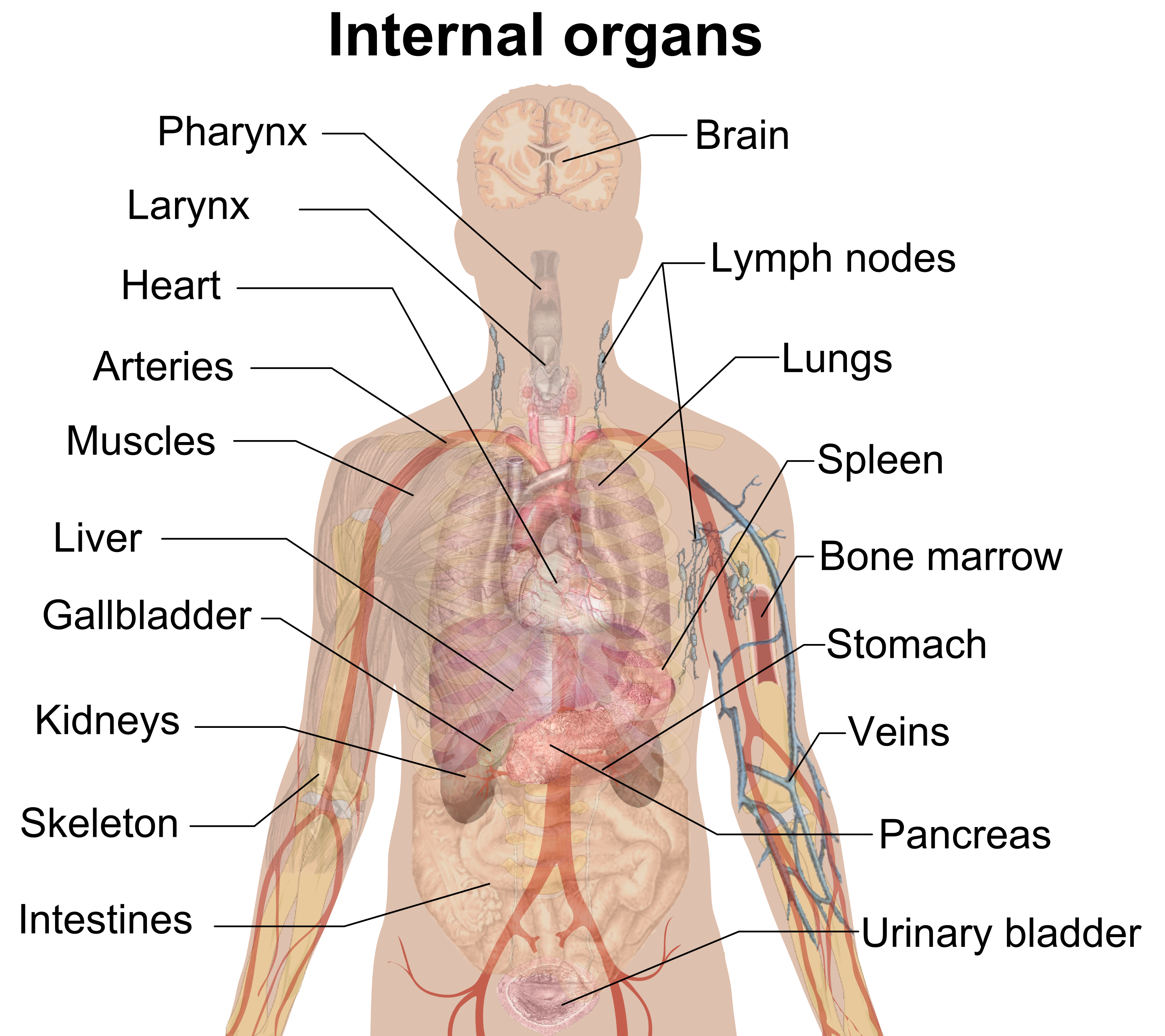 Selection of internal organs in human anatomy. To discuss image, please see Talk:Human body diagrams